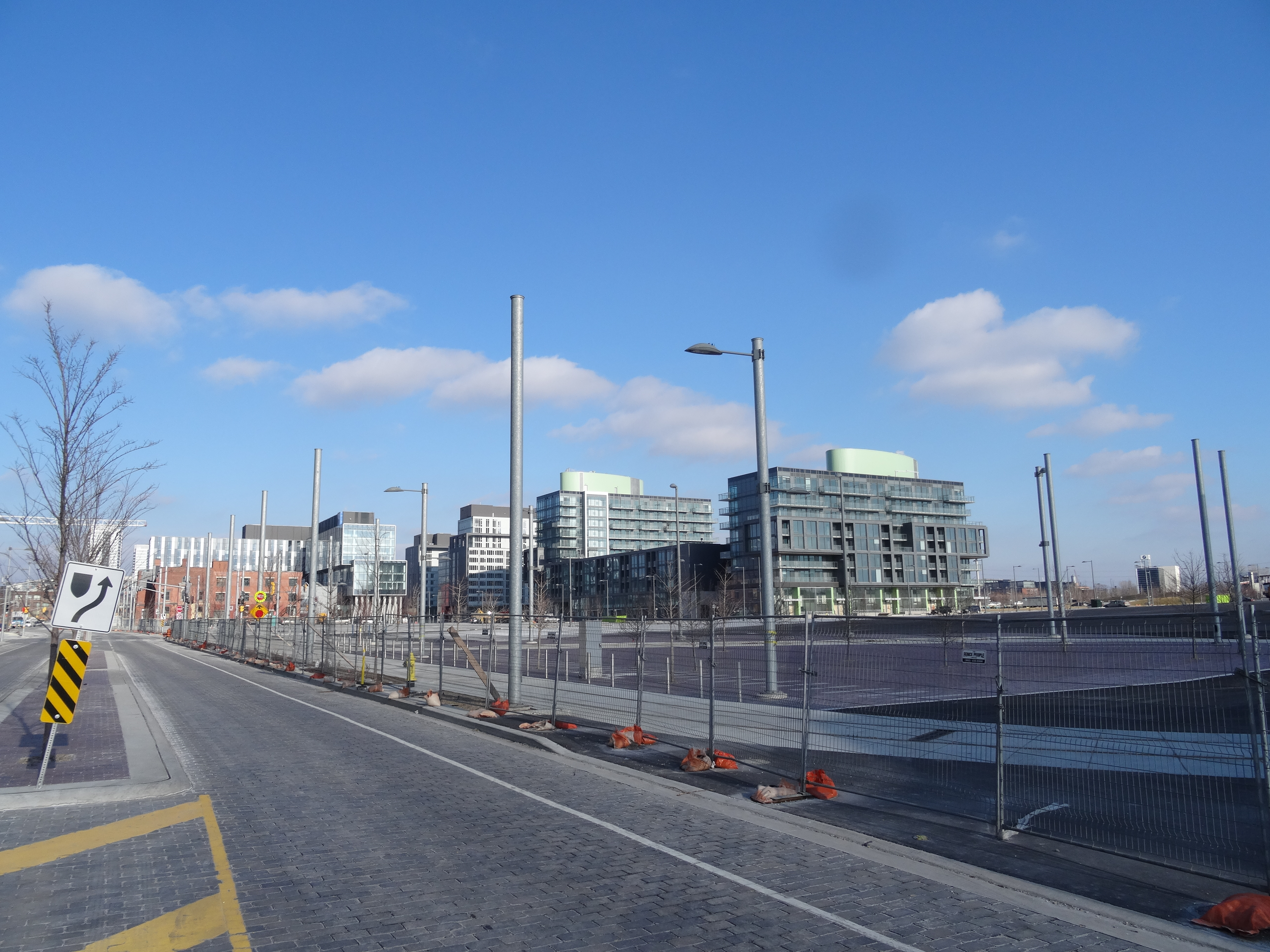 The 2015 Pan American Games Athlete's village in January 2015.